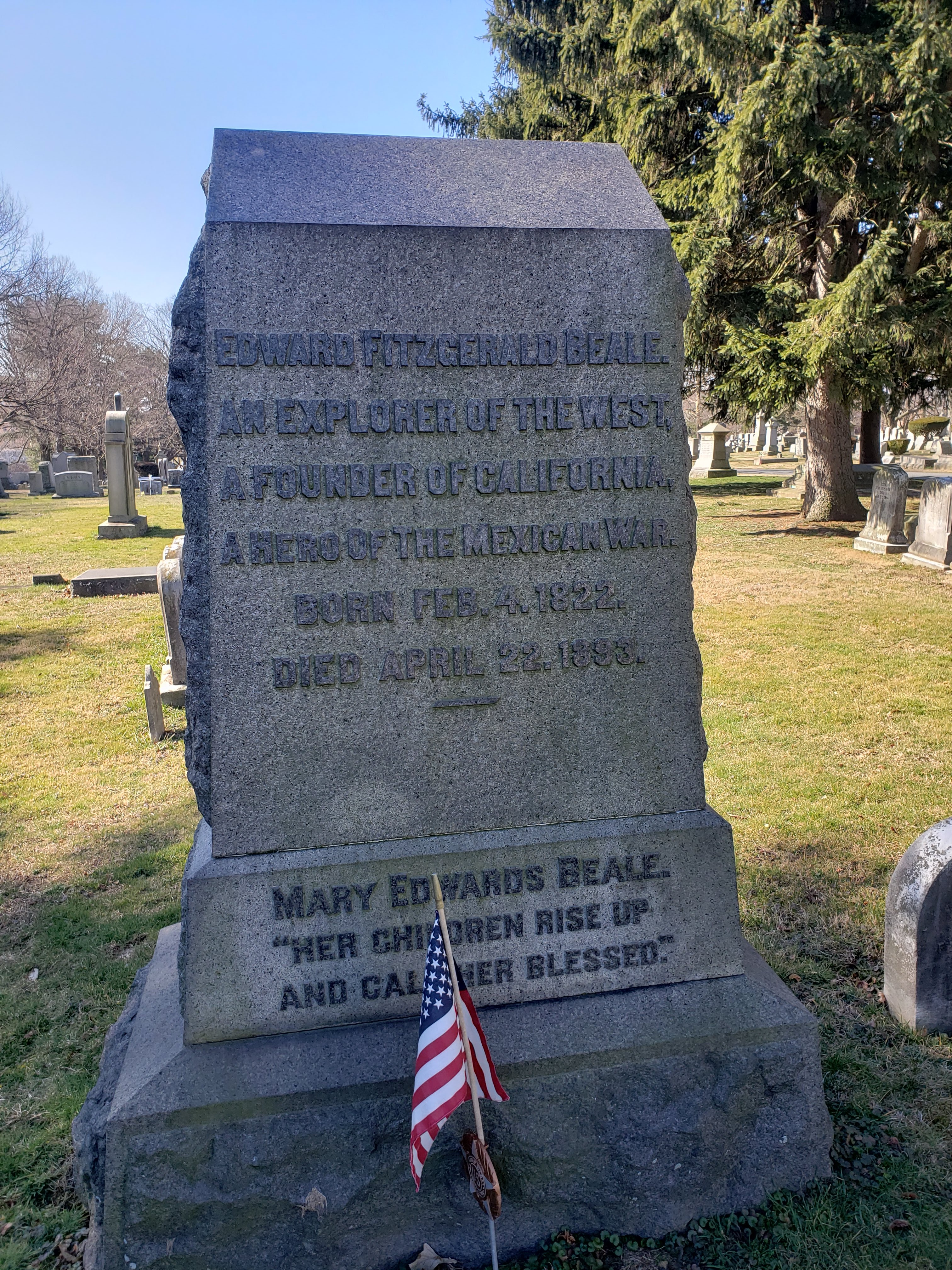 Edward Fitzgerald Beale gravestone in Chester Rural Cemetery. Photo taken March 2020.